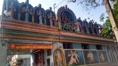 Kumbakonam Padithandaparameswari temple கும்பகோணம் படிதாண்டா பரமேஸ்வரிகோயில்